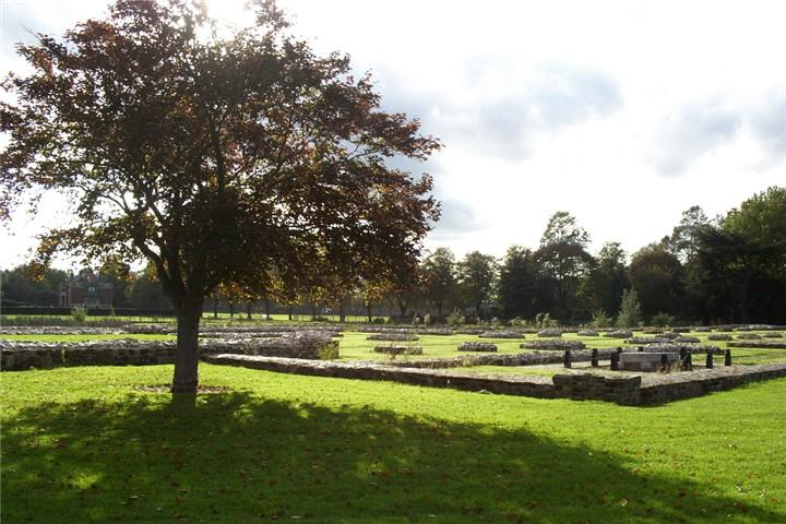 Abbey ruins taken by kev747